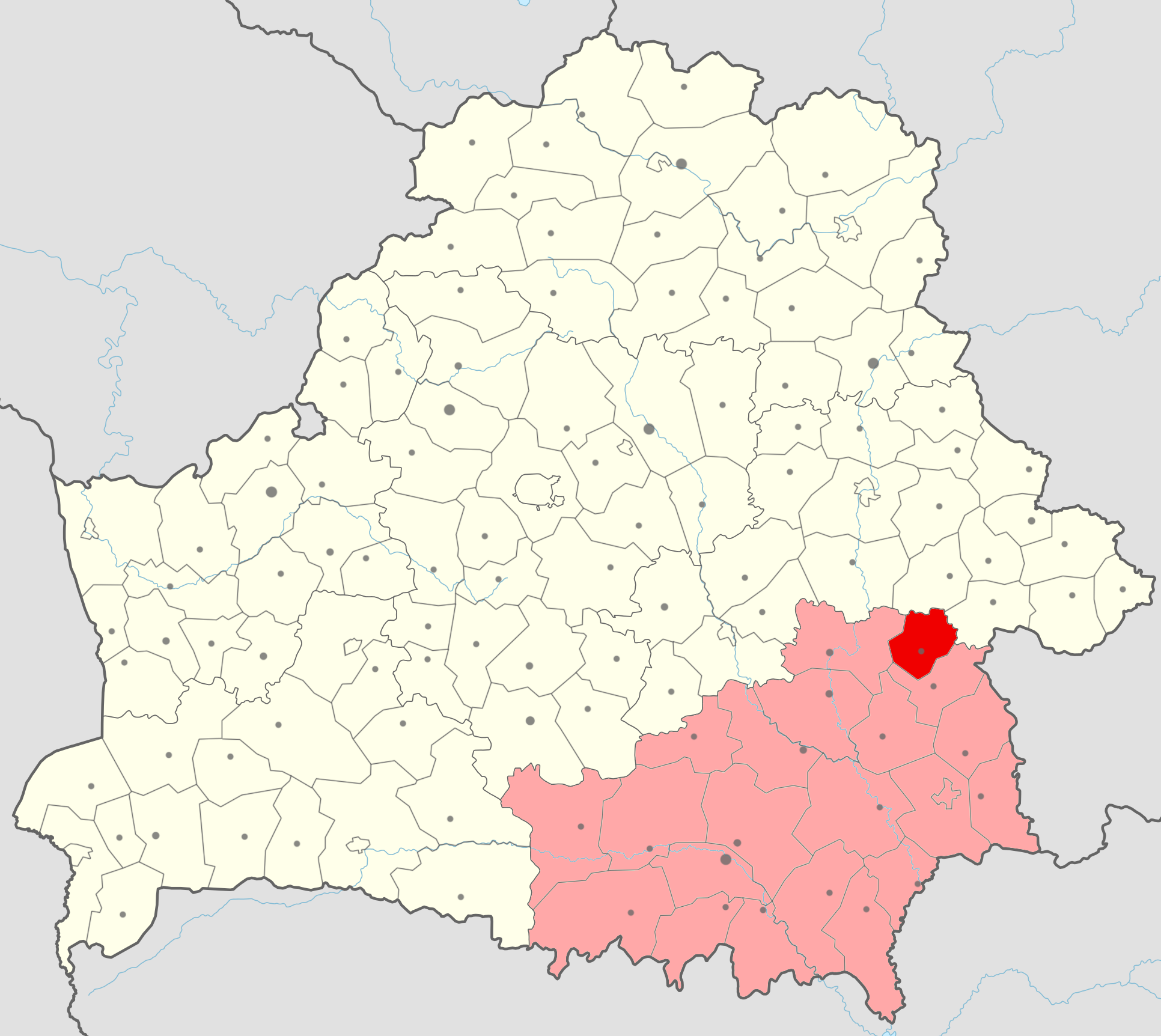 Location of Karmianski rajon (red) in Homieĺskaja voblasć (light red) in Belarus.